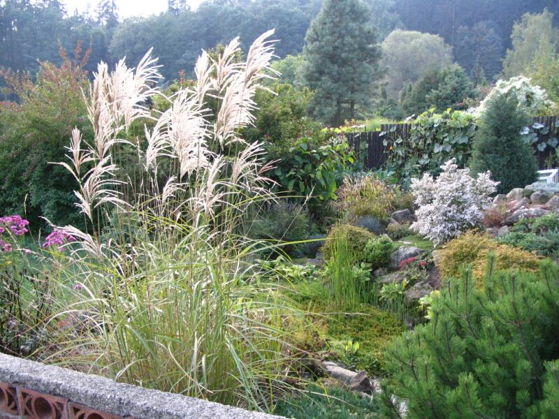 Borotín Arboretum, Blansko District, Czech Republic, in autumn 2006